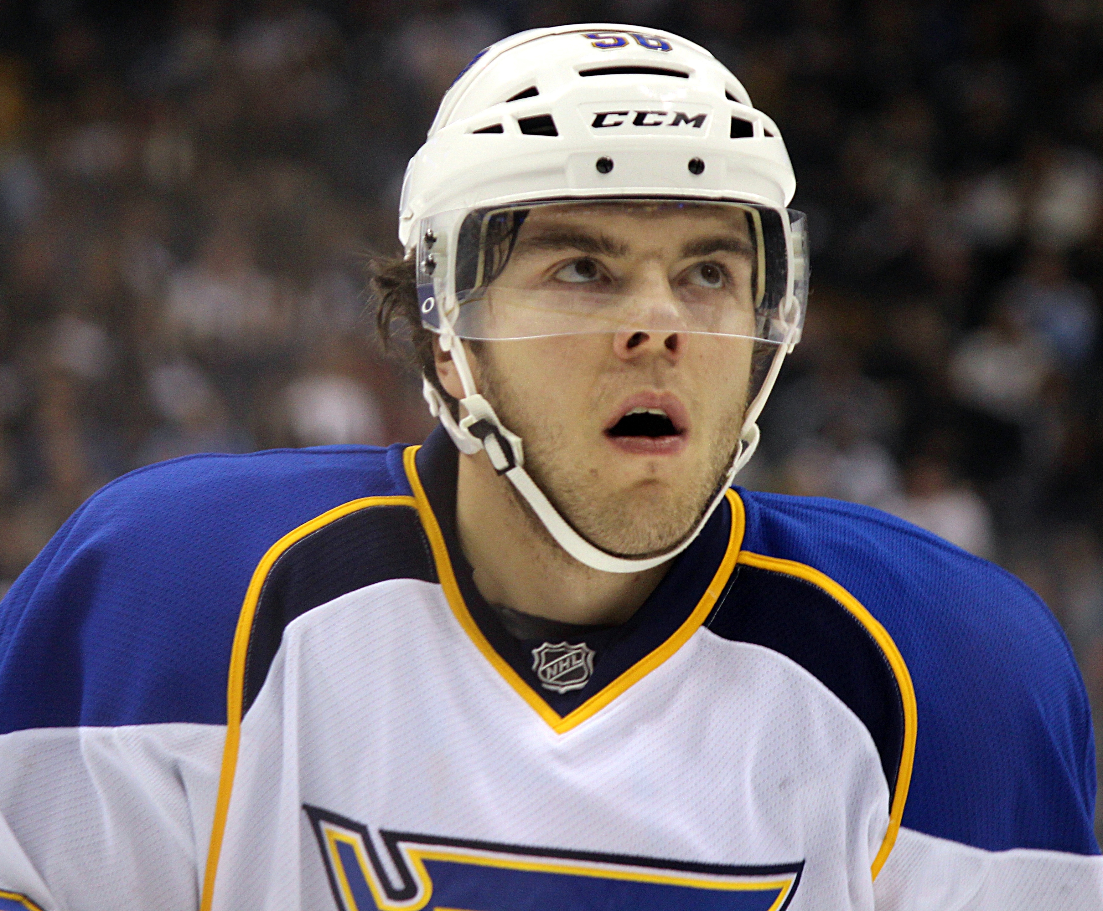 St. Louis Blues forward Magnus Pääjärvi skates against the Pittsburgh Penguins, March 23, 2014, at Consol Energy Center in Pittsburgh, PA.